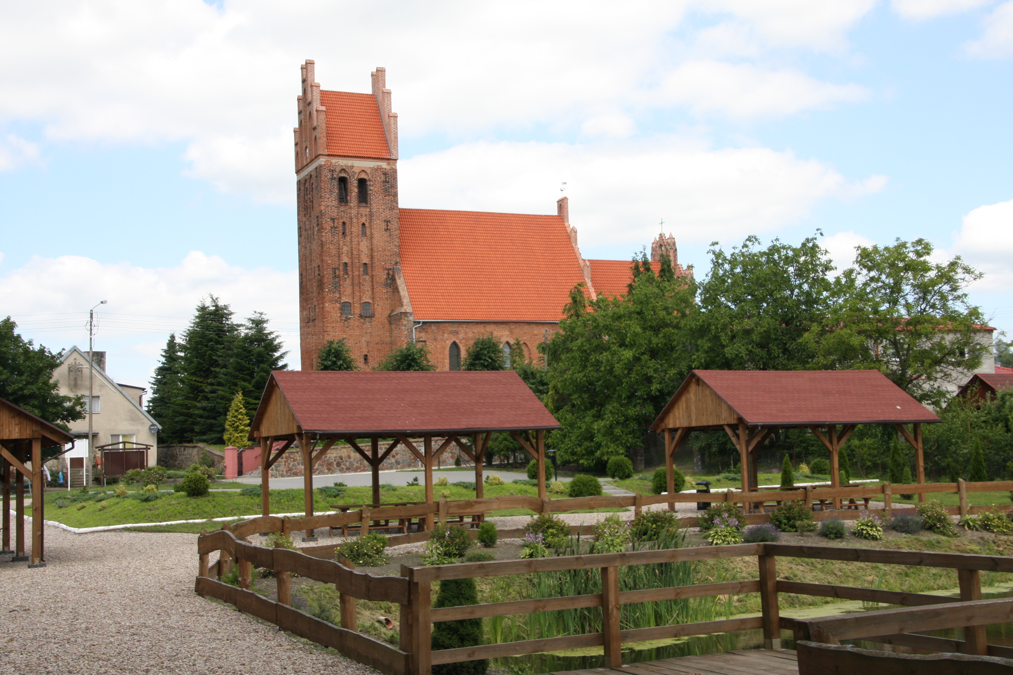 Church building in the village of Lalkowy, Starogard County in the Pomeranian Voivodeship of northern Poland.